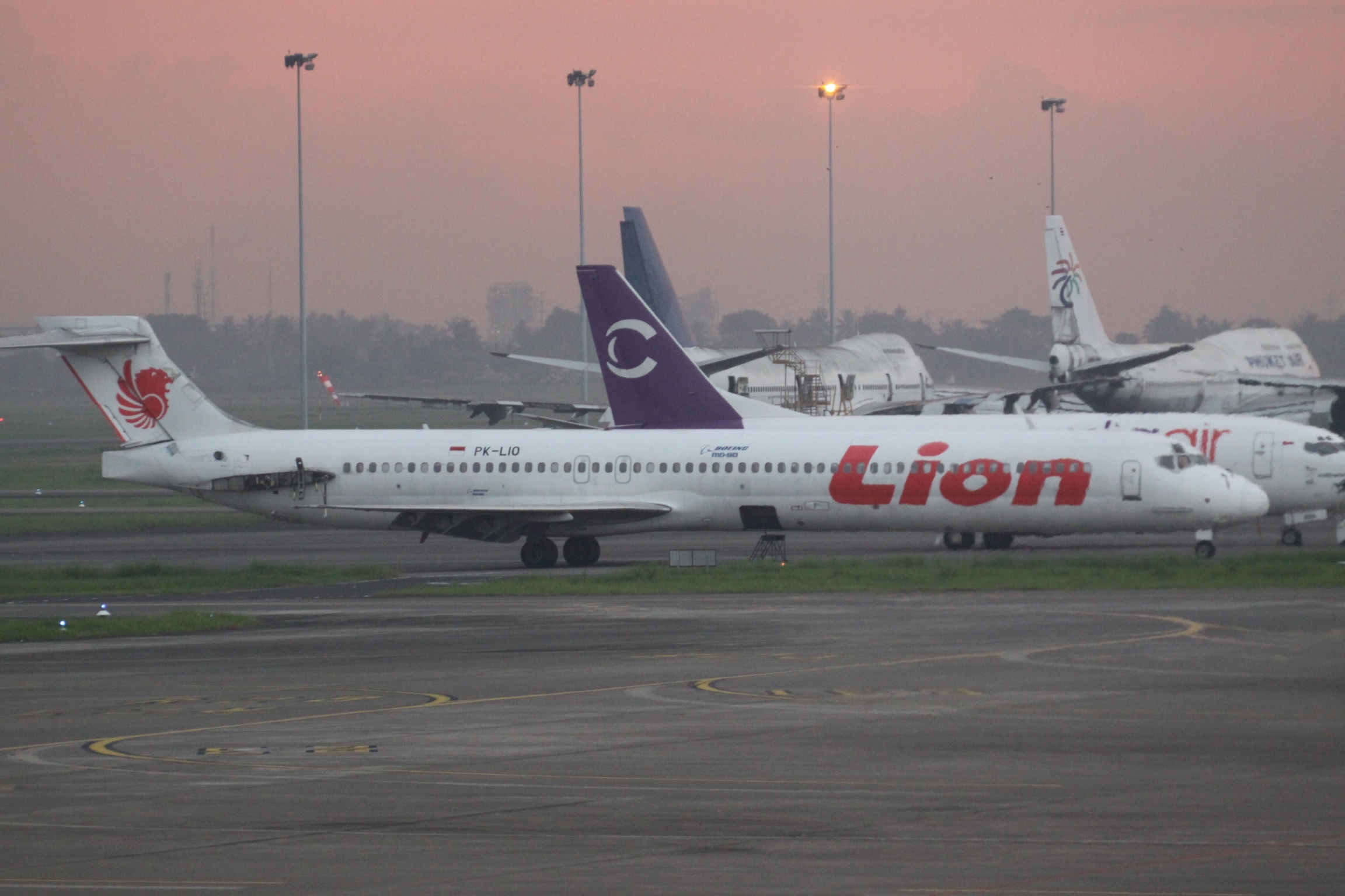 At Surabaya